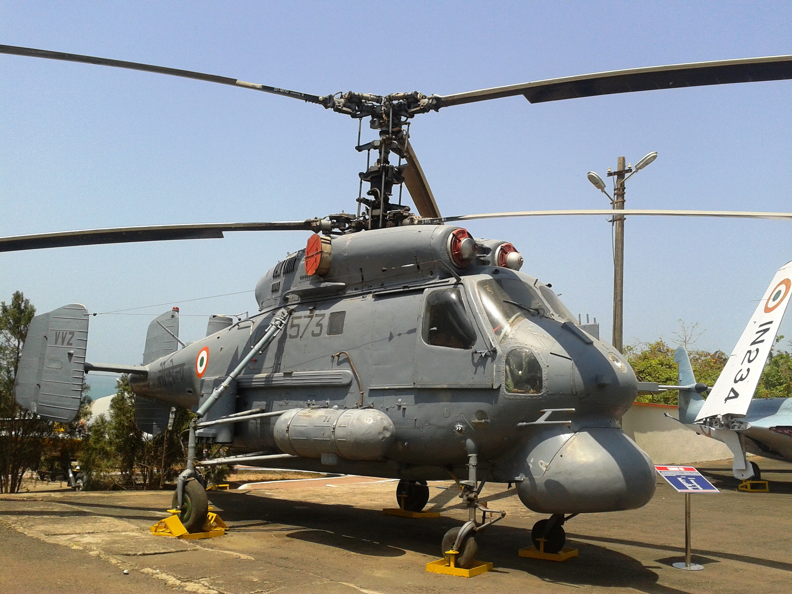 the Ka - 25 Helicopter of the Indian Naval Air Arm on display at the Naval Aviation Museum in Goa, India. Picture taken in May 2012